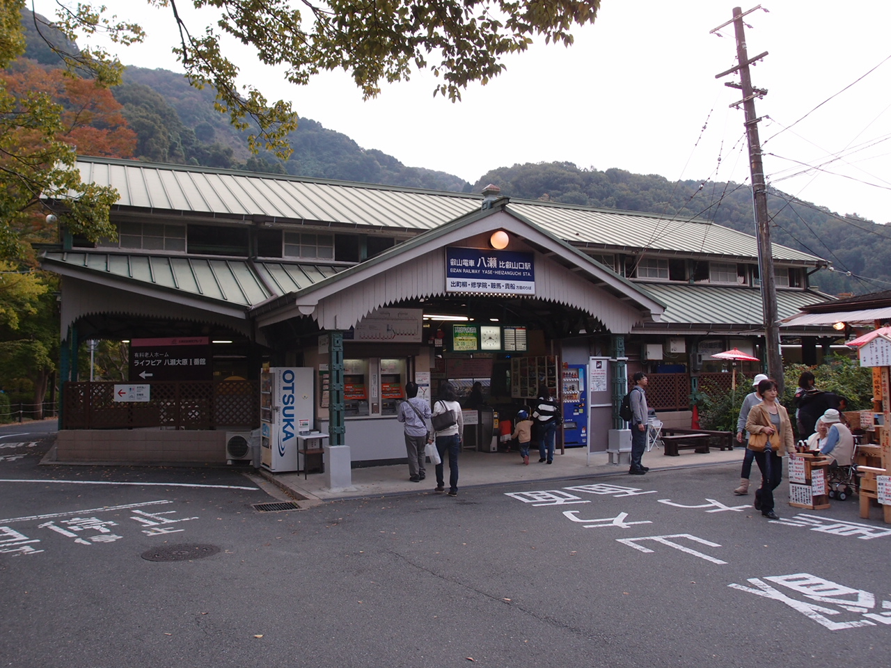 Eizan Electric Railway in Kyoto, Japan.